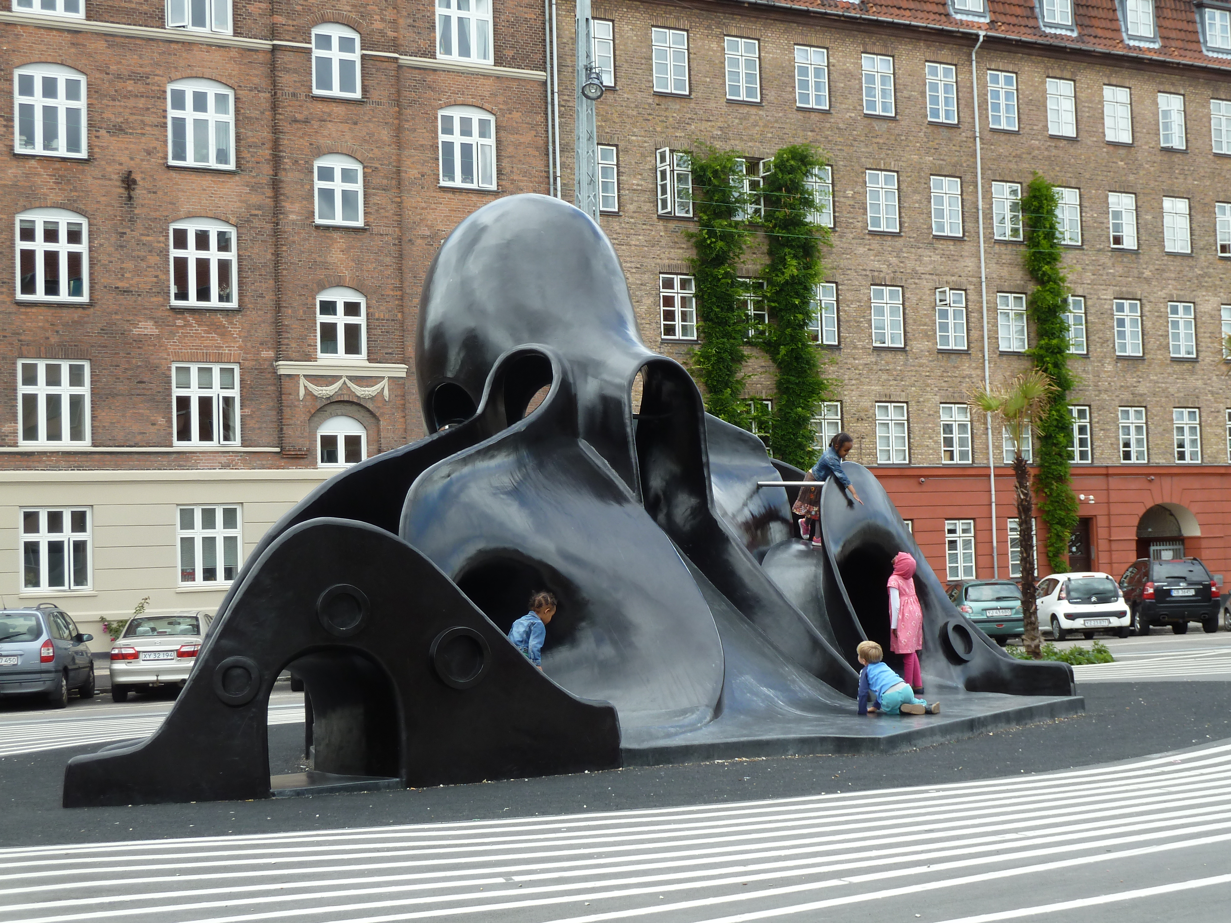 Superkilen in the Nørrebro district of Copenhagen, Denmark